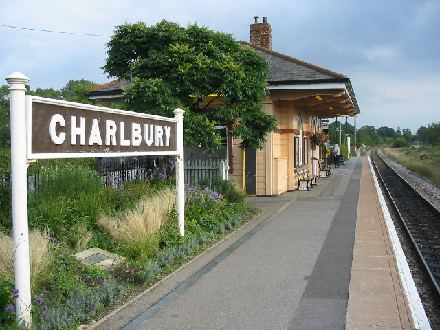 Charlbury Railway Station: the up platform, looking in the up direction towards Hanborough.